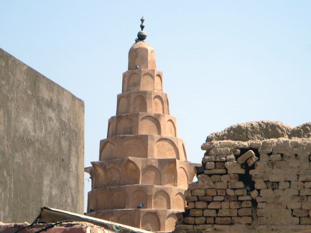 Dhul Kifl Shrine